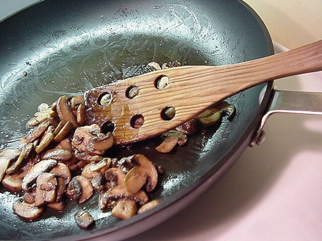 Thrifted Calphalon 12" non-stick fry pan (bought in 2007 in like new condition) and thrifted wooden utensil I've used for years